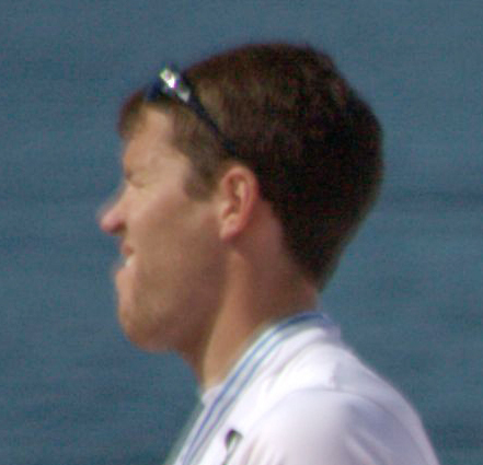 The poor men's eights medallists had to stand on the medal dais for ages. 2010 World Rowing Championships.